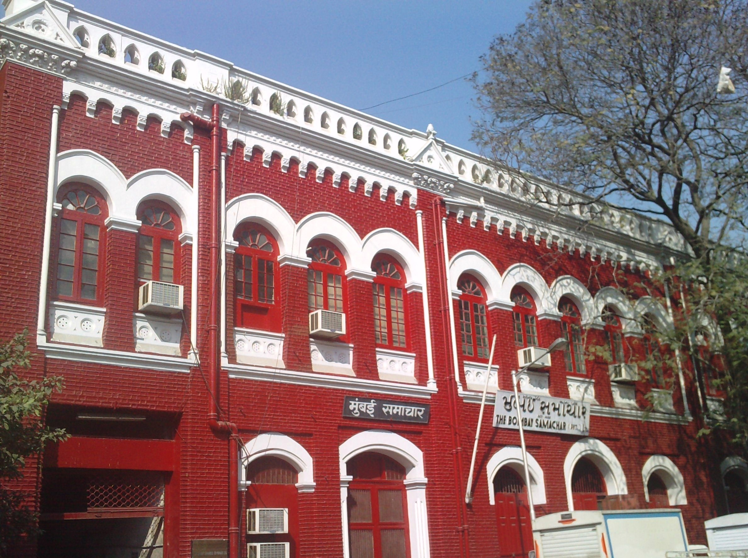 WIKIPEDIA TAKES MUMBAI 1